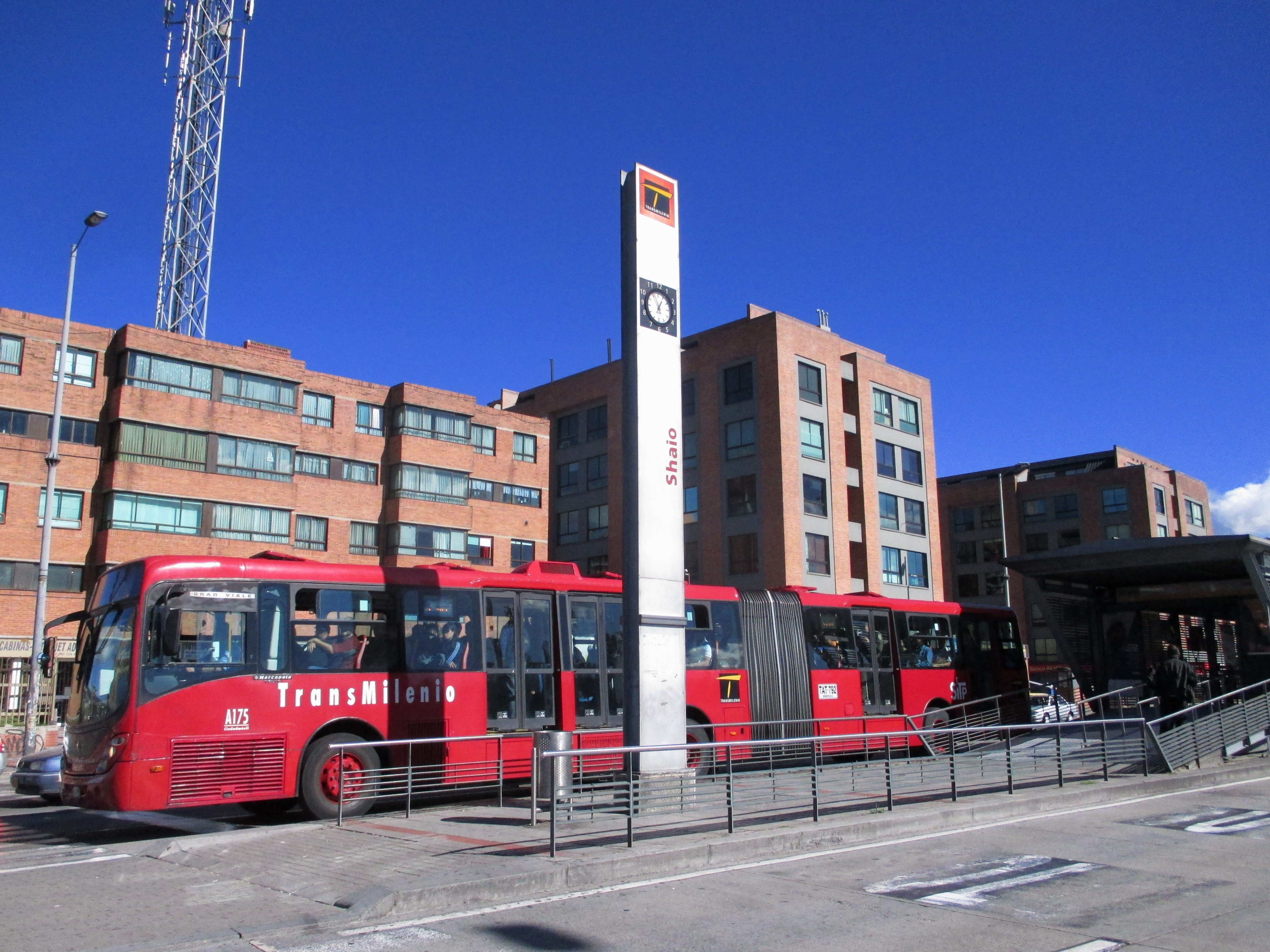 Bogotá